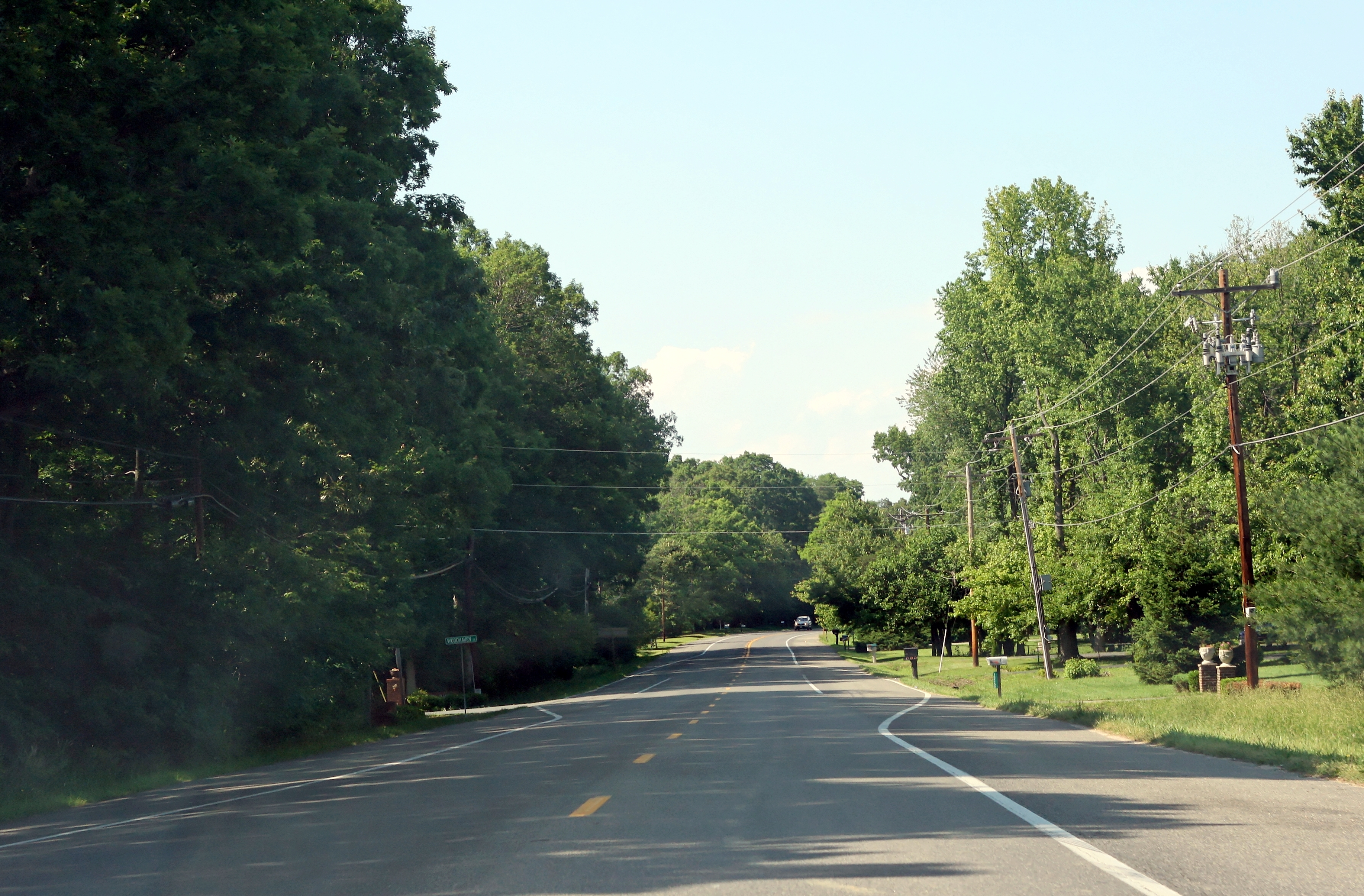 Shot of Maryland State Route 6 (Charles St), heading westbound in Charles County in Southern Maryland. This is just before the turn into Woodhaven Drive.